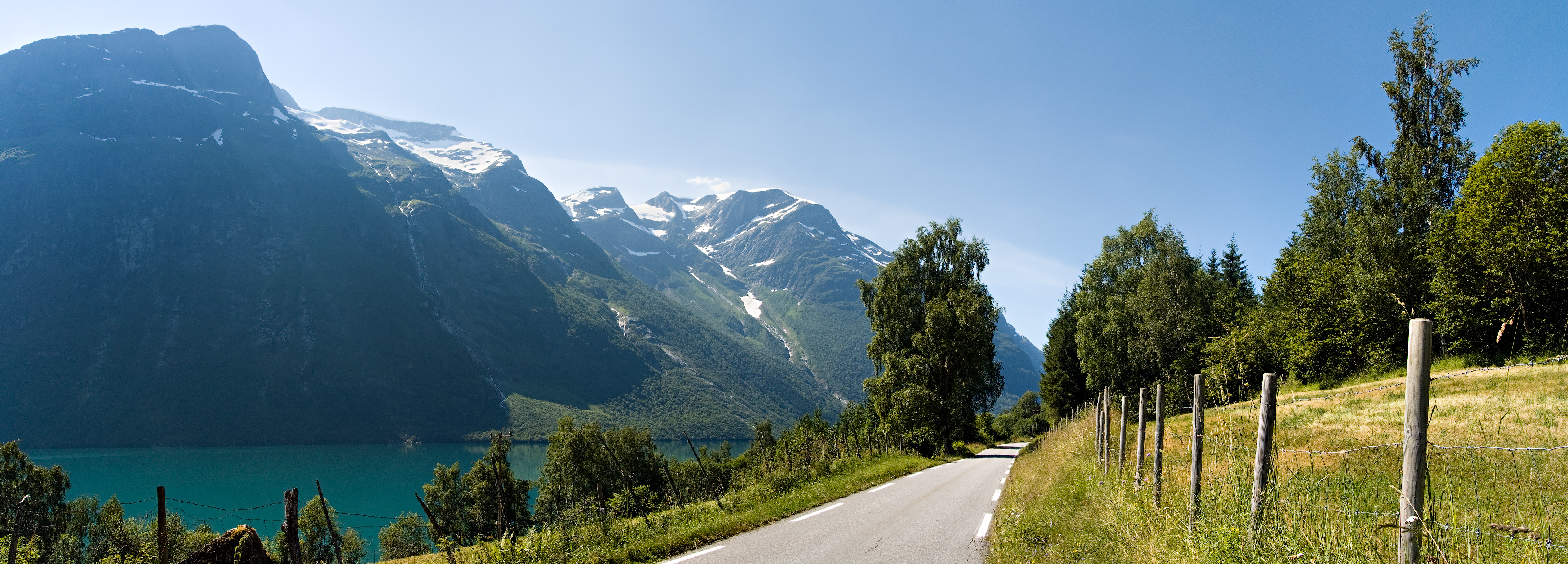 Lodalen, a valley in Stryn municipality, Sogn og Fjordane county, Norway.